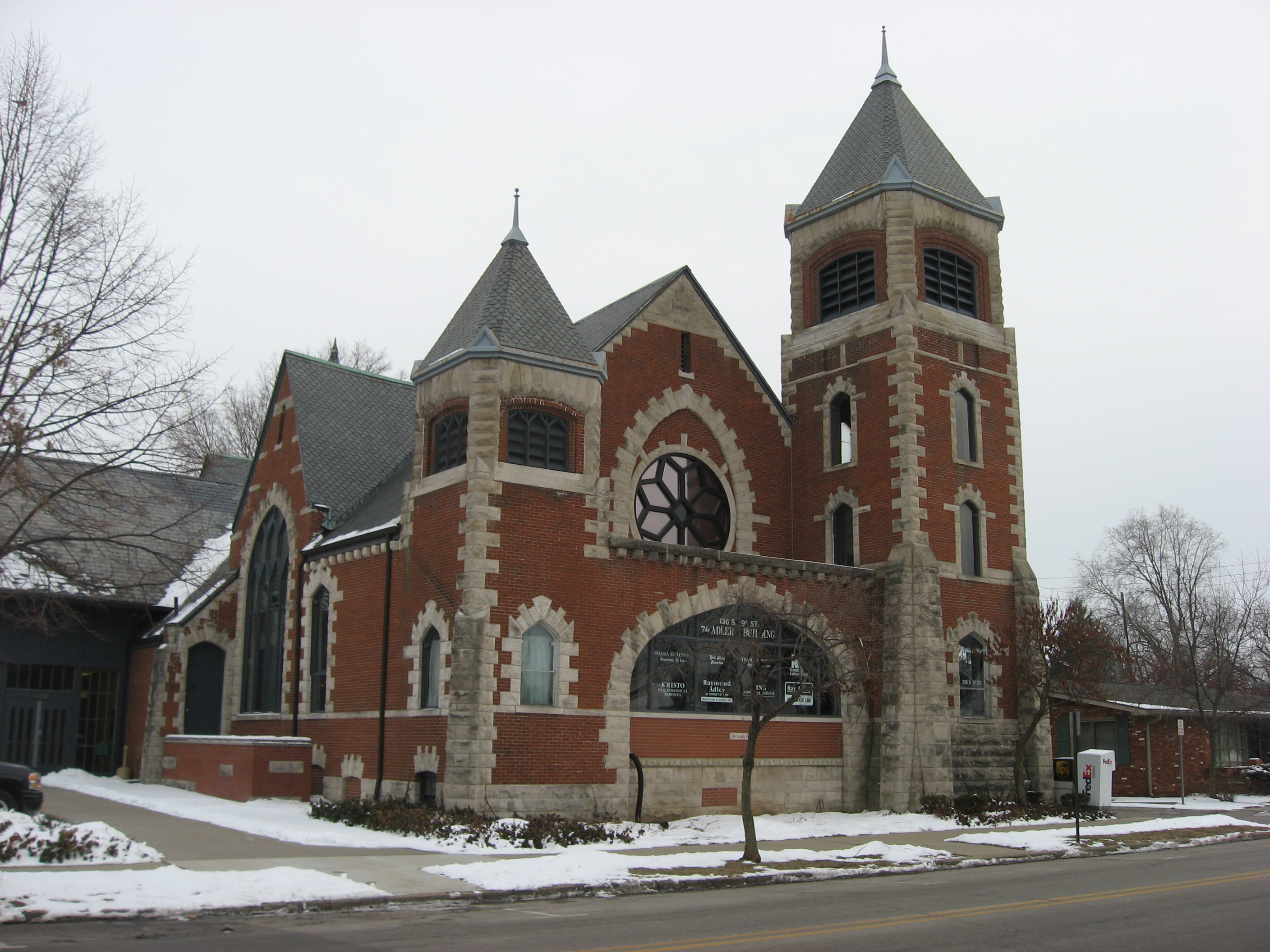 Front of the Adler Building (formerly First Christian Church), located at 136 S. Ninth Street inNoblesville, Indiana, United States. Built in 1897, it is part of the South 9th Street Historic District, a historic district that is listed on the National Register of Historic Places.